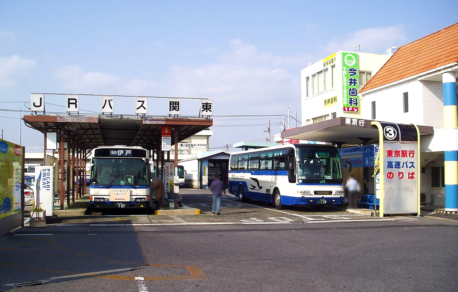 JR Bus Kanto Tateyama Sta.